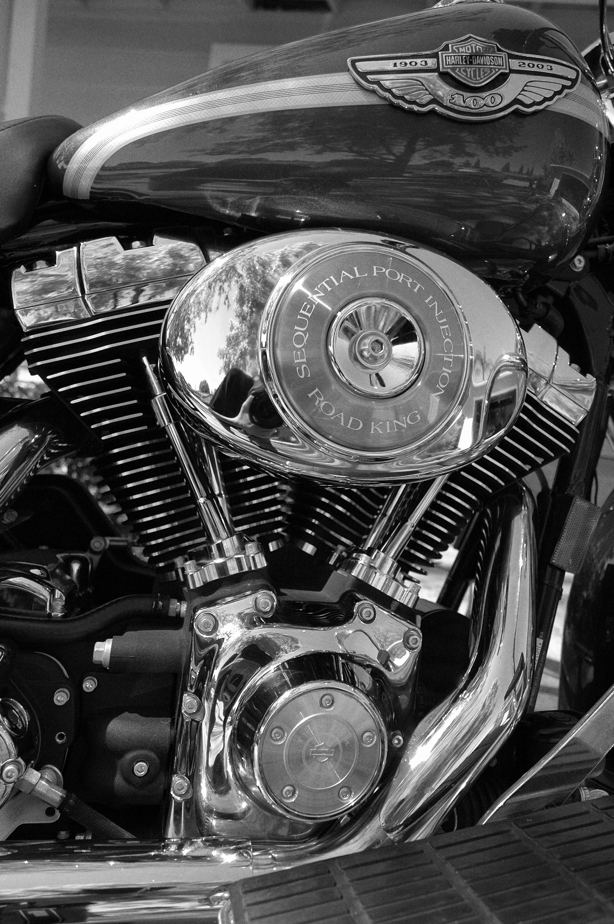 The 1490cc HD engine. Rubber mounted.Harley Davidson